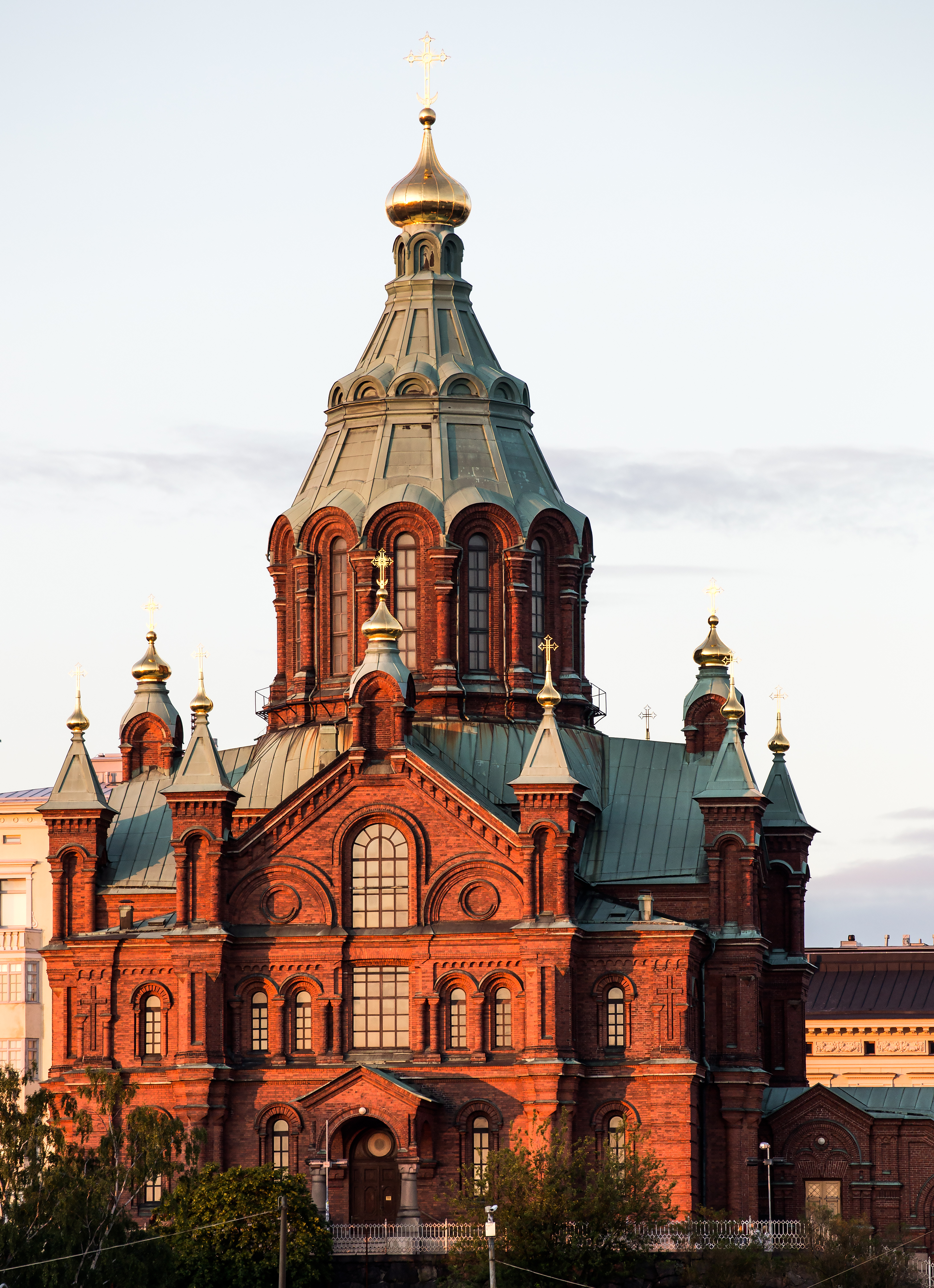 Uspenski Cathedral in Helsinki